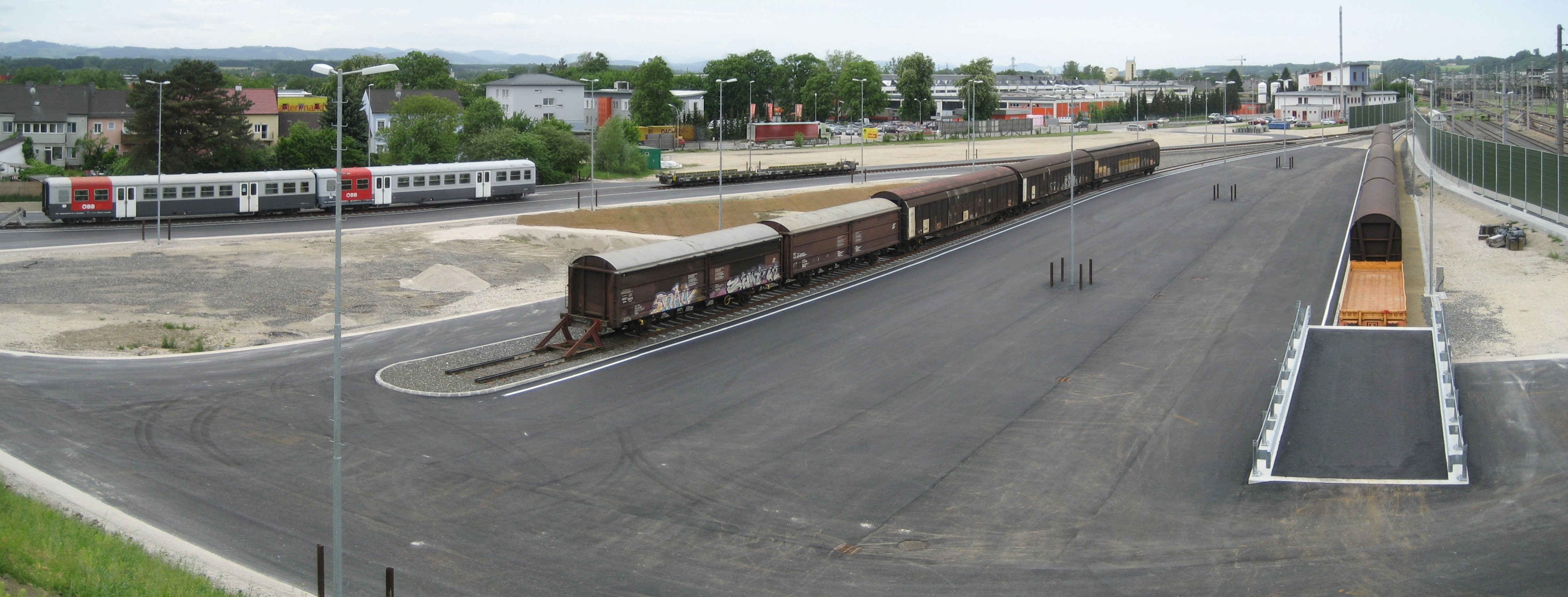 team track located in the train station of Amstetten, Lower Austria